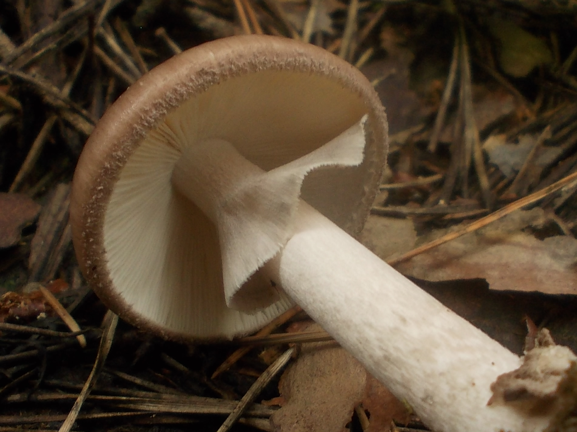 Amanita porphyria Alb. & Schwein. Image location: Ramensky District, Moscow Oblast, Russia Recognized by sight For more information about this, see the observation page at Mushroom Observer.